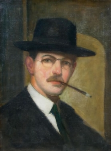 Richard Edward Miller - Selfportrait